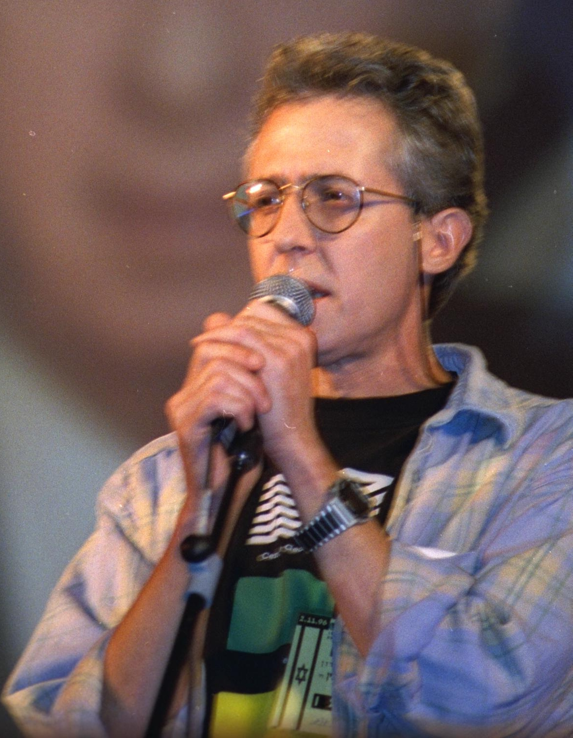 Singer Gidi Gov performing at the memorial service held for PM Yitzhak Rabin. גידי גוב שר בטקס לזכר ראש הממשלה יצחק רבין Photo: MATAN ARAZI, 11/02/1996